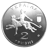 Coin of Ukraine